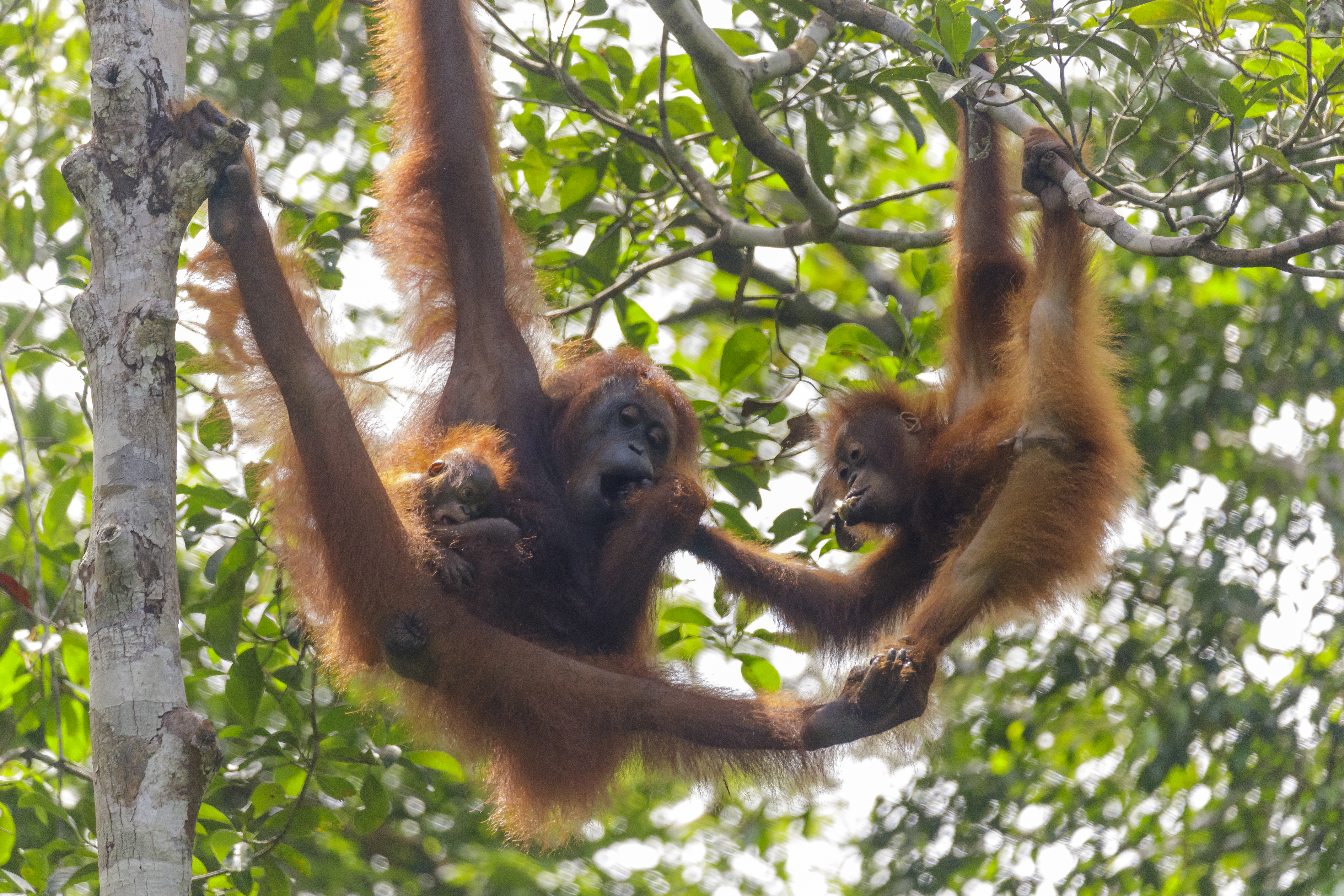 Bornean orangutan (Pongo pygmaeus), Tanjung Putting National Park - unlike other great apes, such as chimpanzees, gorillas and bonobos, these gangly guys don’t like to live in groups. A female will usually have a baby (or two) with her, but males like to be alone - taken during a photo trip to Indonesia in 2018 - by Thomas Fuhrmann - see more pictures on